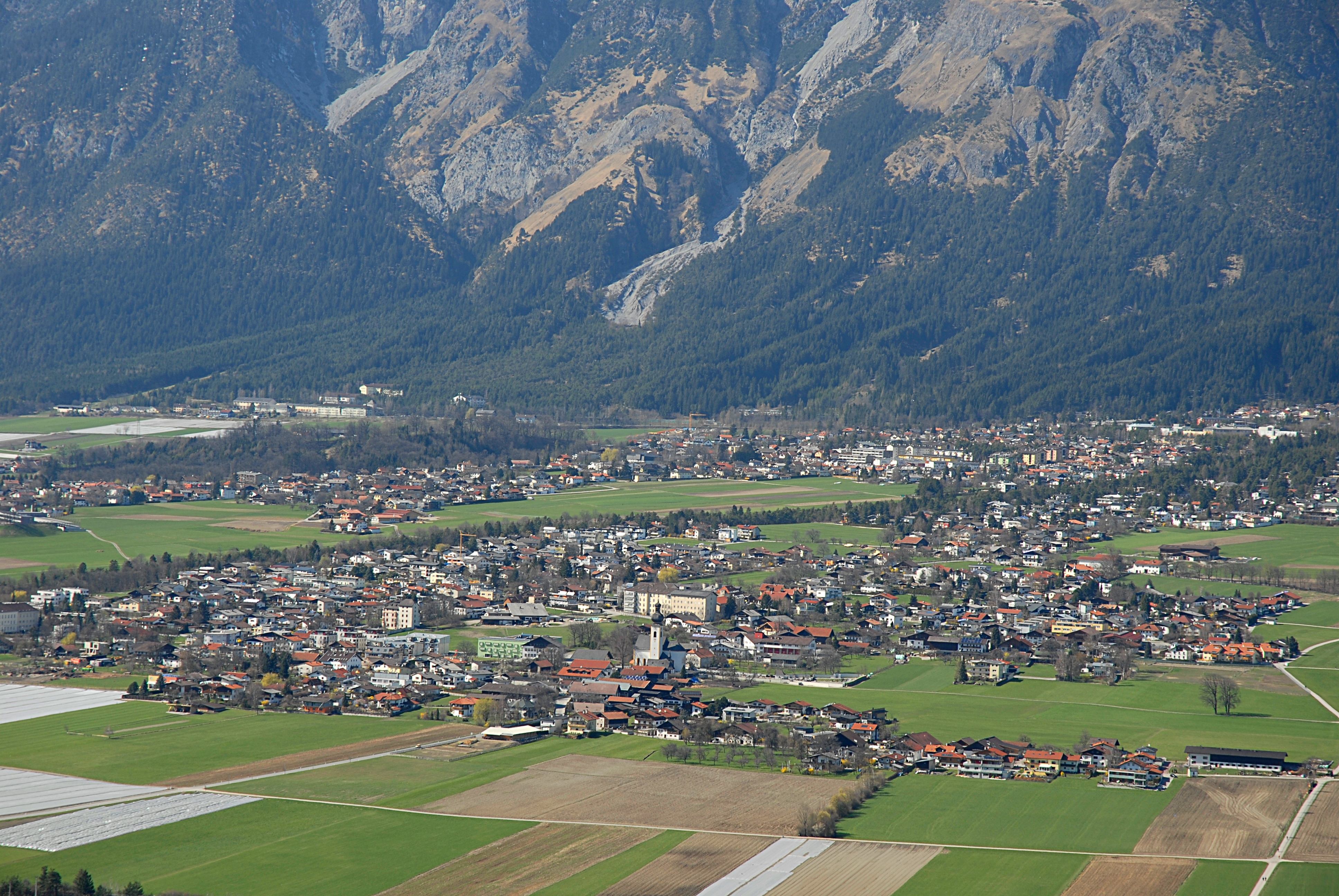 Mils near Hall, Tyrol Austria from Southeast (Kleinvolderberg)